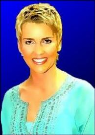 German actress Alexandra Rietz